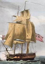 Cropped image of Coventry-class frigate HMS Carysfort, from the work "Capture of the Castor May 29th 1794"